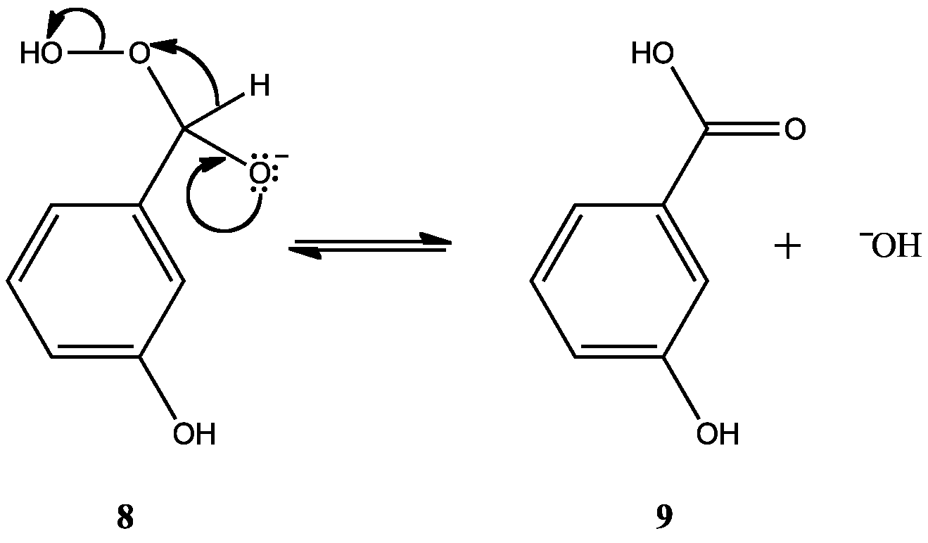 Created by Alexander Linsalata, 27 April 2010. Image shows the production of an aromatic carboxylic acid during the Dakin reaction due to a H shift, rather than an aryl shift.